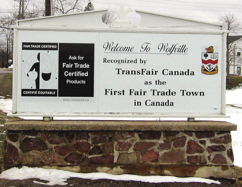 I took this photo myself on April 14th, 2007. I release all rights for the use of this photo. This is a zoomed in version.